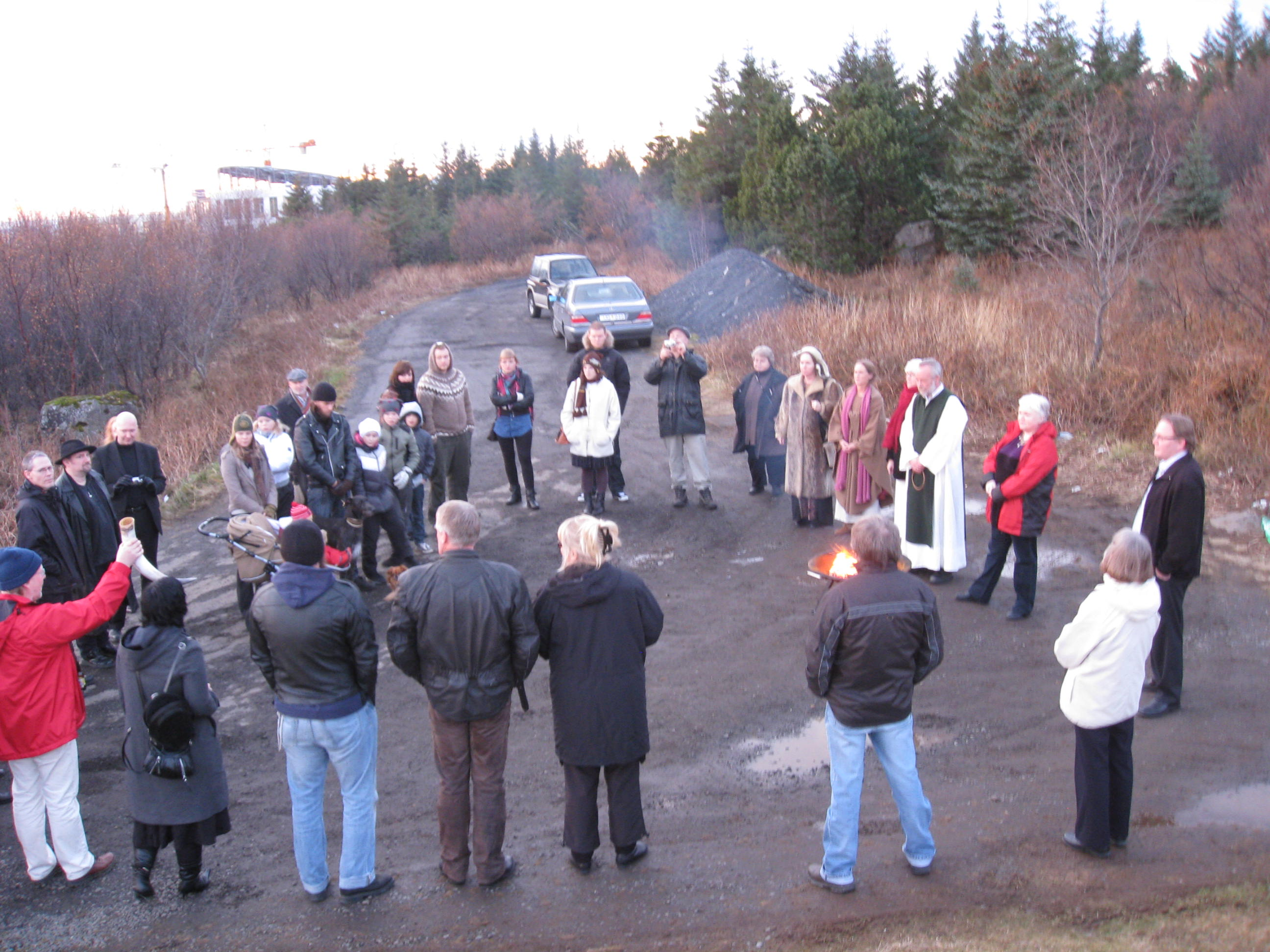 Veturnáttablót (Winter Nights Sacrifice) on the First Day of Winter 2009. Icelandic neopagans, members of Ásatrúarfélagið, stand in a circle as they conduct a religious ceremony. The location is the land of Ásatrúarfélagið in Öskjuhlíð, Reykjavík. A horn is passed around and raised in honor of various entities. Libations are offered. The man in the green and white ceremonial garbs standing by the fire on the right is Hilmar Örn Hilmarsson, allsherjargoði (Common Chieftain or High Priest). He is holding a ceremonial ring. He is flanked by two priestesses. Around 40 people attended the ceremony, some are out of the frame on the left side. The weather was still but fairly cold. Apart from the high priest, participants are wearing normal winter clothing.